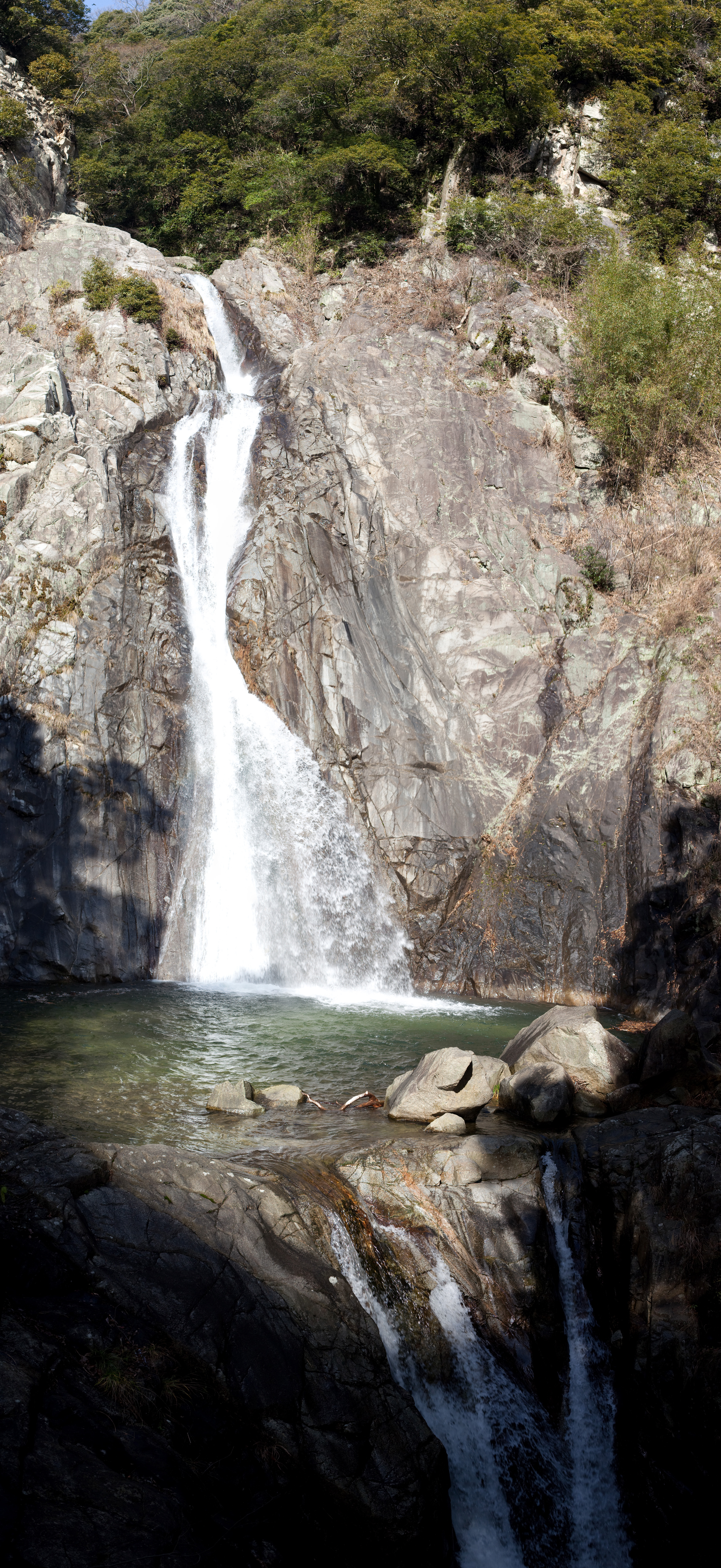 Vertical panoramic photograph of Odaki, the greatest fall of the Nunobiki Falls